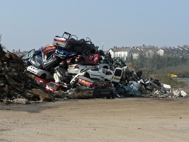 ' .... and the winner is.....' Scrap vehicles beside piles of rusting metal in a compound at Barry Docks.